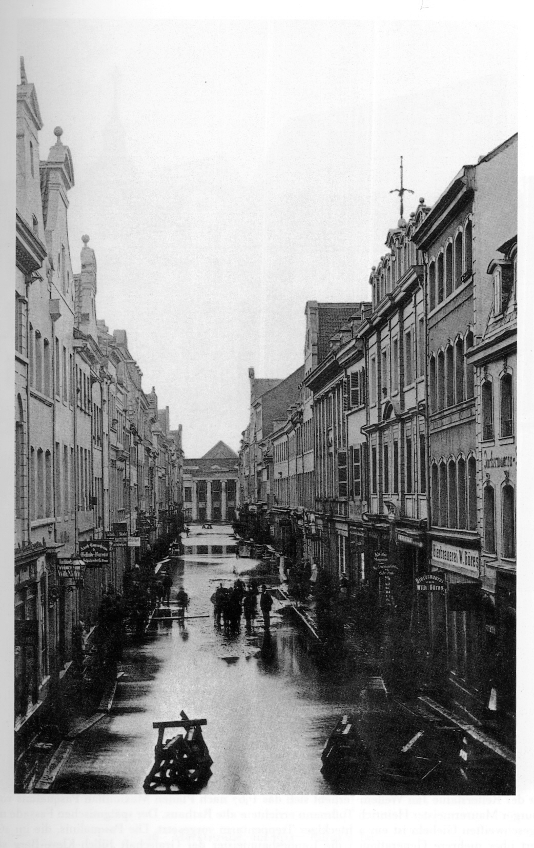 t